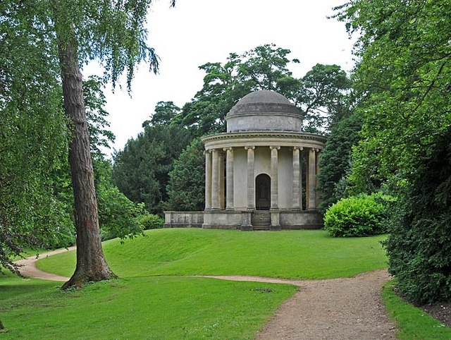 Temple of Ancient Virtue, Stowe Built in 1737.